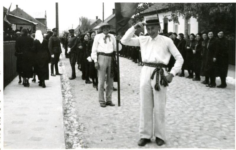 Day of olden times in 1938, Lazdijai, Lithuania